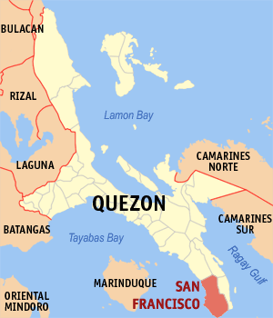 Map of Quezon showing the location of San Francisco